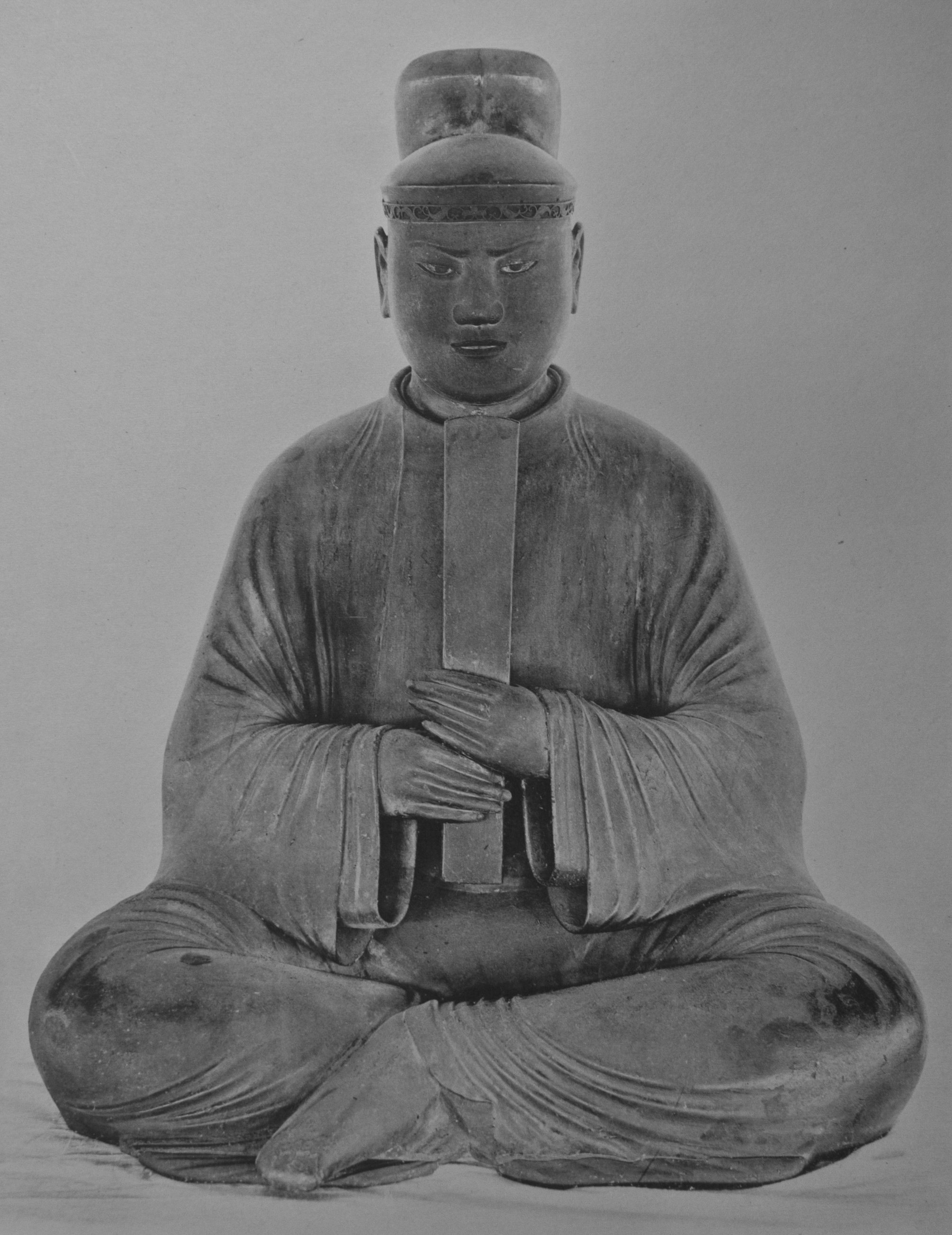 Shoryoin, Horyuji, Nara, Japan